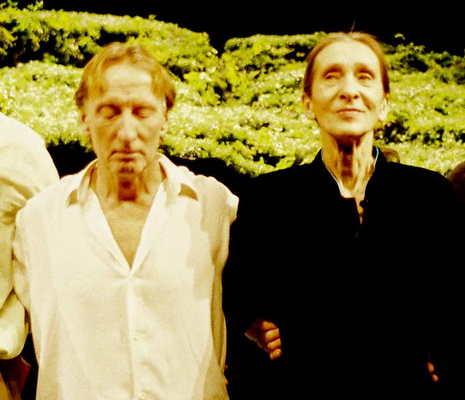 Dancers and choreographers Dominique Mercy (left) with Pina Bausch in 2009.